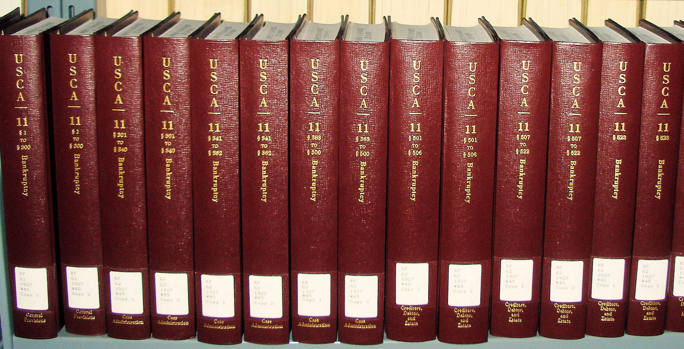 Part of Title 11 of the United States Code (the Bankruptcy Code) on a shelf at a law library in San Francisco.